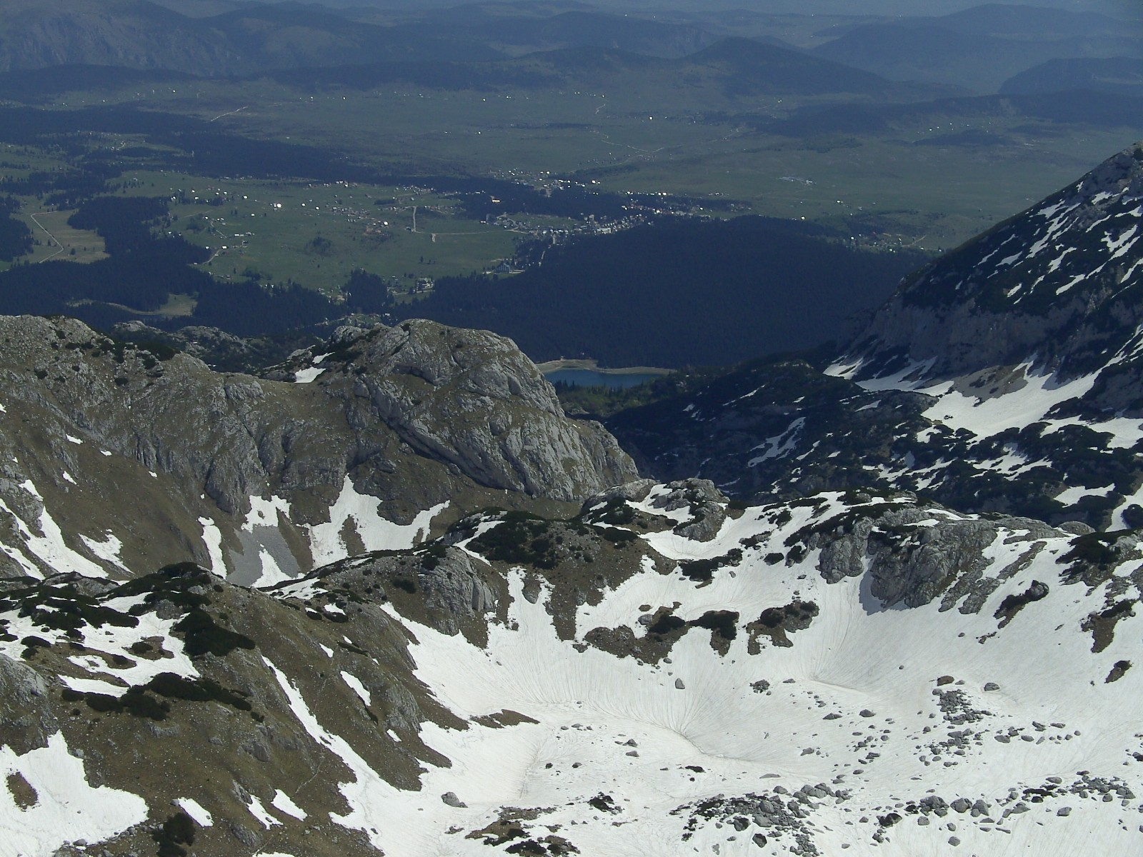 Crno jezero and the town of Žabljak seen from the top of Bobotov Kuk, Montenegro